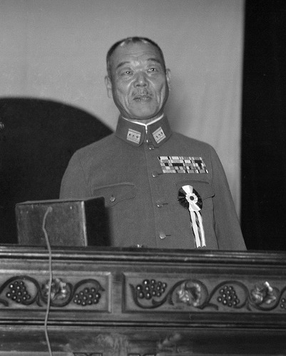 Portrait of Koiso Kuniaki (小磯國昭, 1880 – 1950), 41st Prime Minister of Japan (1944 – 1945)